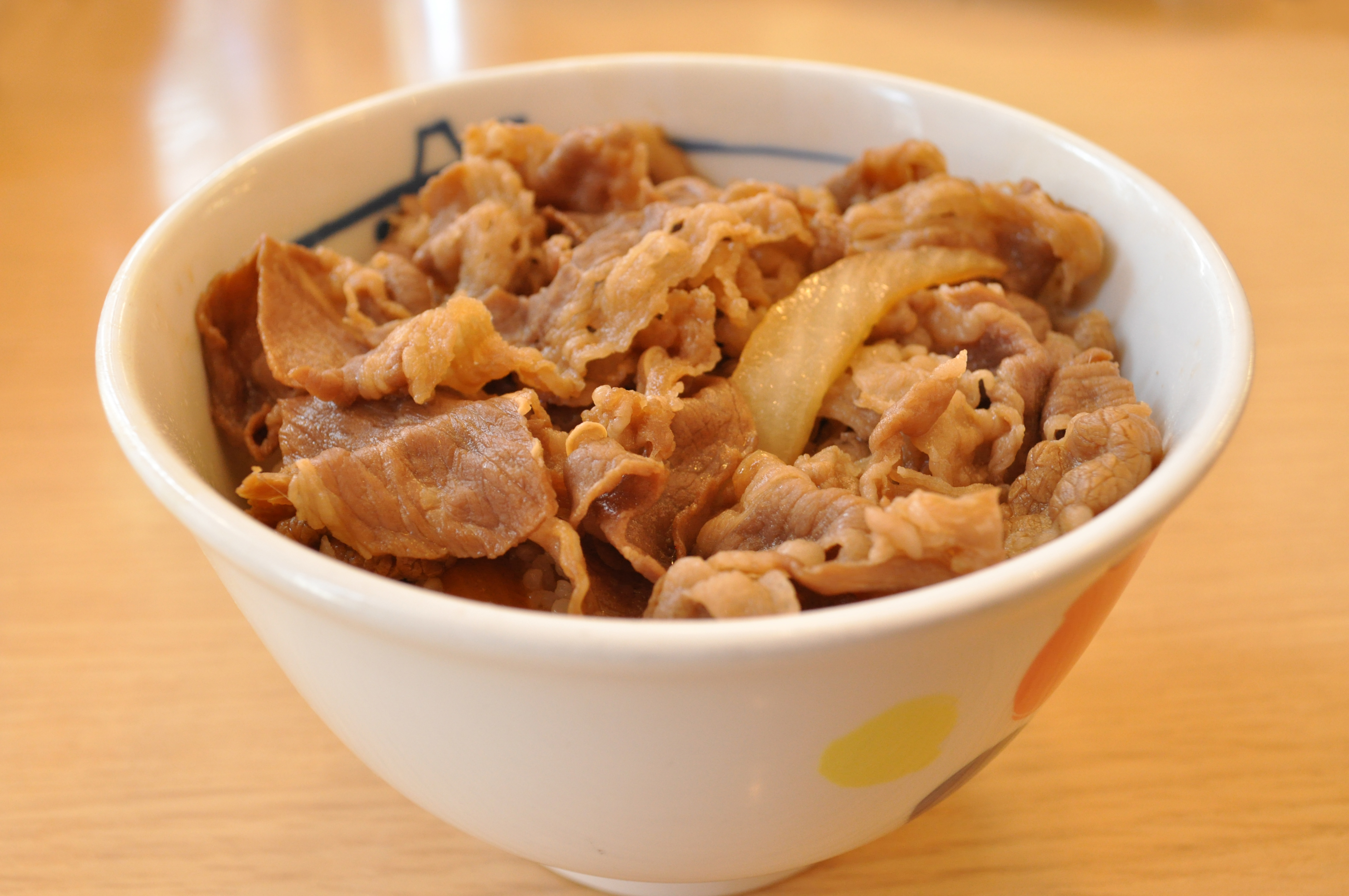 Matsuya Beef Bowl, regular size.